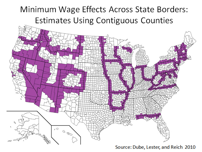 Study comparing 288 pairs of contiguous U.S. counties with minimum wage differentials from 1990 to 2006. Based on this, researchers found “no adverse employment effects” from a minimum wage increase. Source: Dube, Andrajit; Lester, T. William; Reich, Michael; Minimum Wage Effects Across State Borders: Estimates Using Contiguous Counties, Working Paper Series, Institute for Research on Labor and Employment, 30 November 2010.[1]